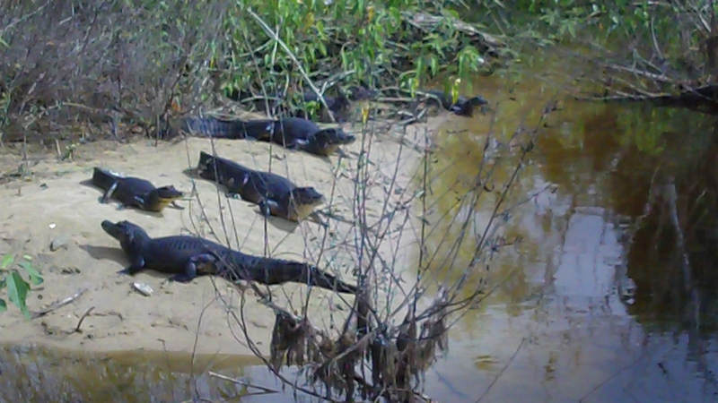 Black caimans